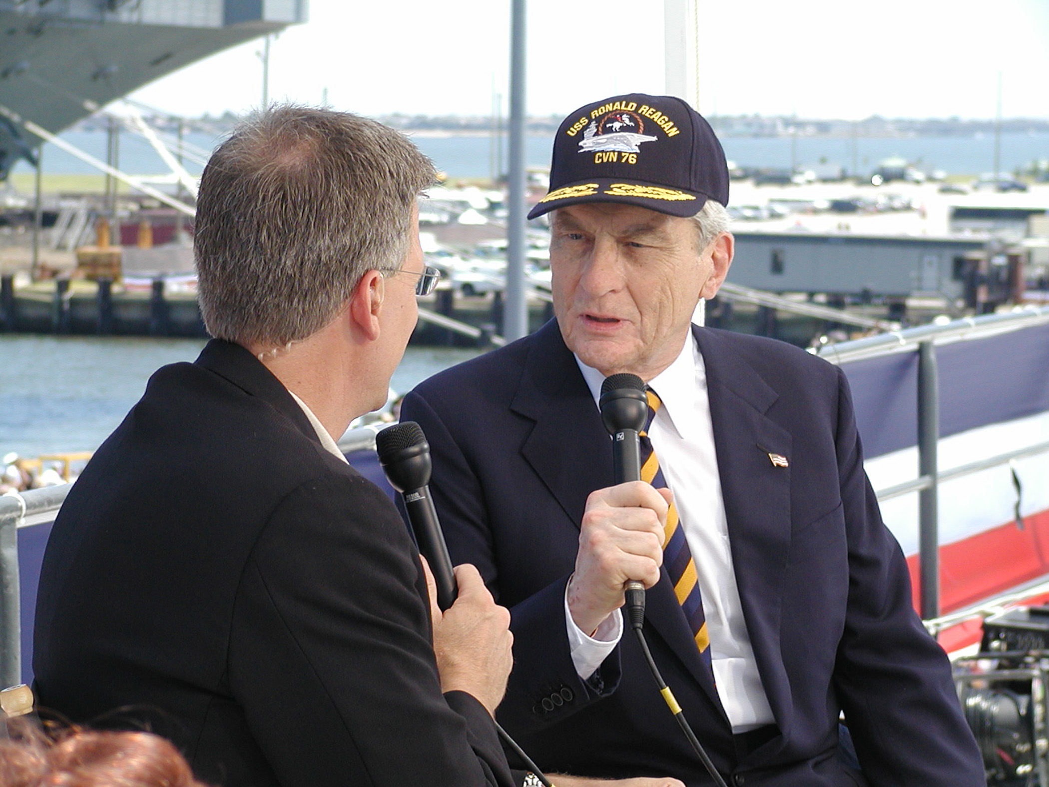 Norfolk, Va. (Jul. 12, 2003) -- Senator John W. Warner, Chairman of the Armed Services Committee is interviewed on live television by Tony Snow of Fox News Network. Warner in his remarks during the commissioning stated, "The Great Communicator would condense my thoughts into just three words, now ascribed as the motto of this great ship: “Peace through Strength.” Ladies and Gentlemen, looking up at this mighty ship, there is no doubt it will keep the peace." U.S. Navy photo. (RELEASED)